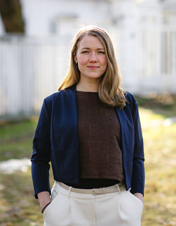 Une Aina Bastholm in 2017